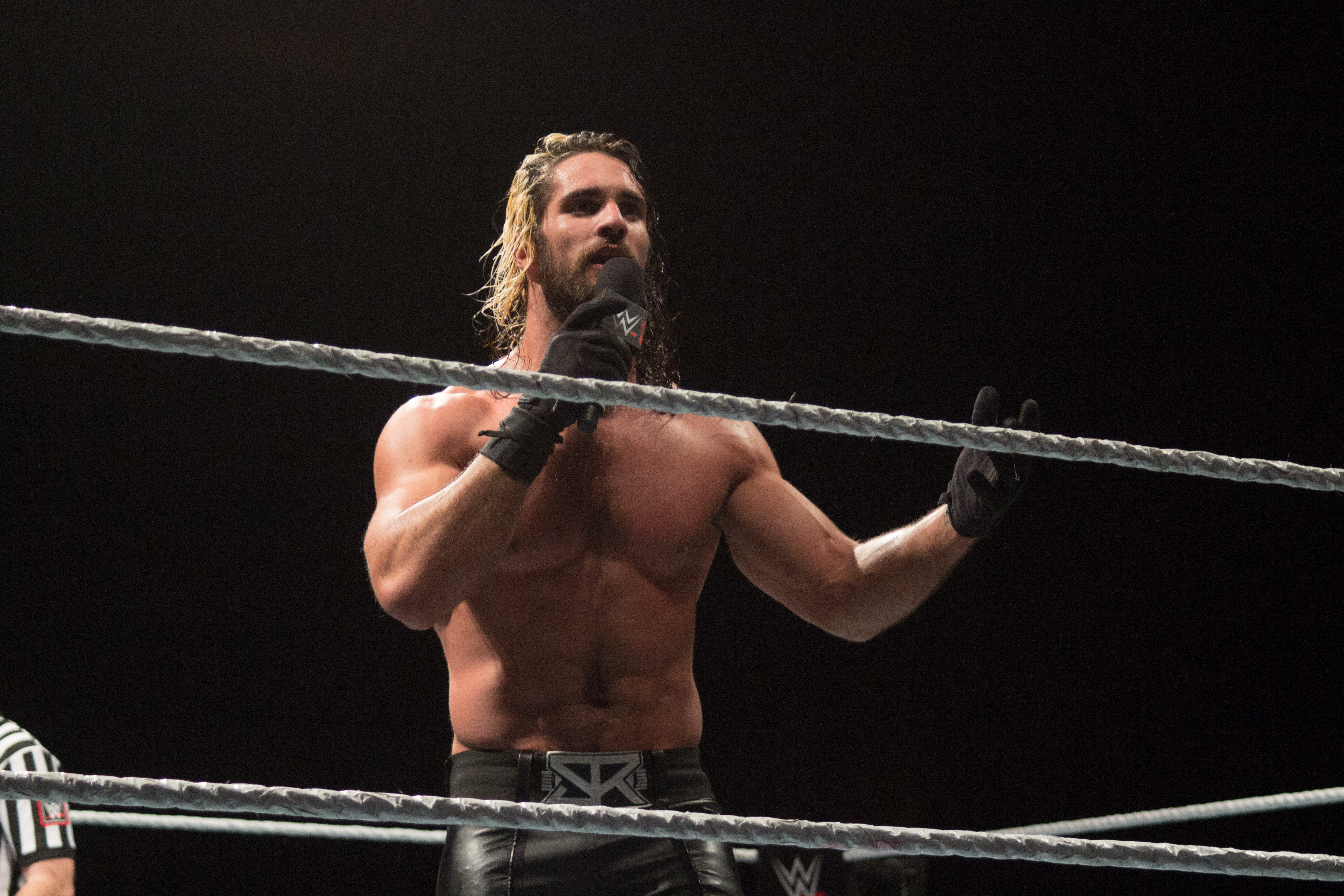 WWE House Show - Garrett Coliseum - 1/10/15